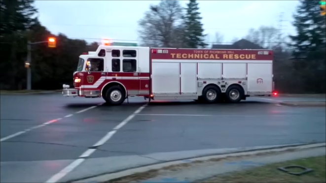 Richmond Hill Fire & Emergency Services Technical Rescue fire truck